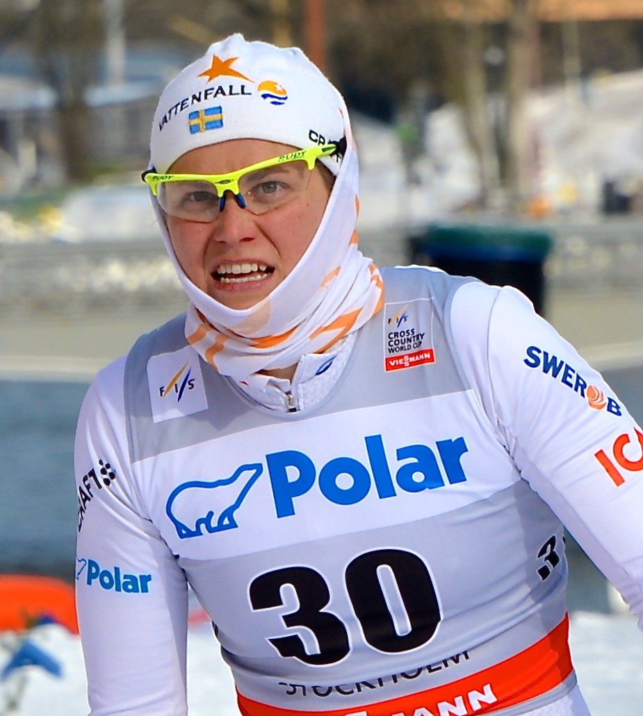 Ida Ingemarsdotter at the Royal Palace Sprint, part of the FIS World Cup 2012/2013, in Stockholm on March 20, 2013.